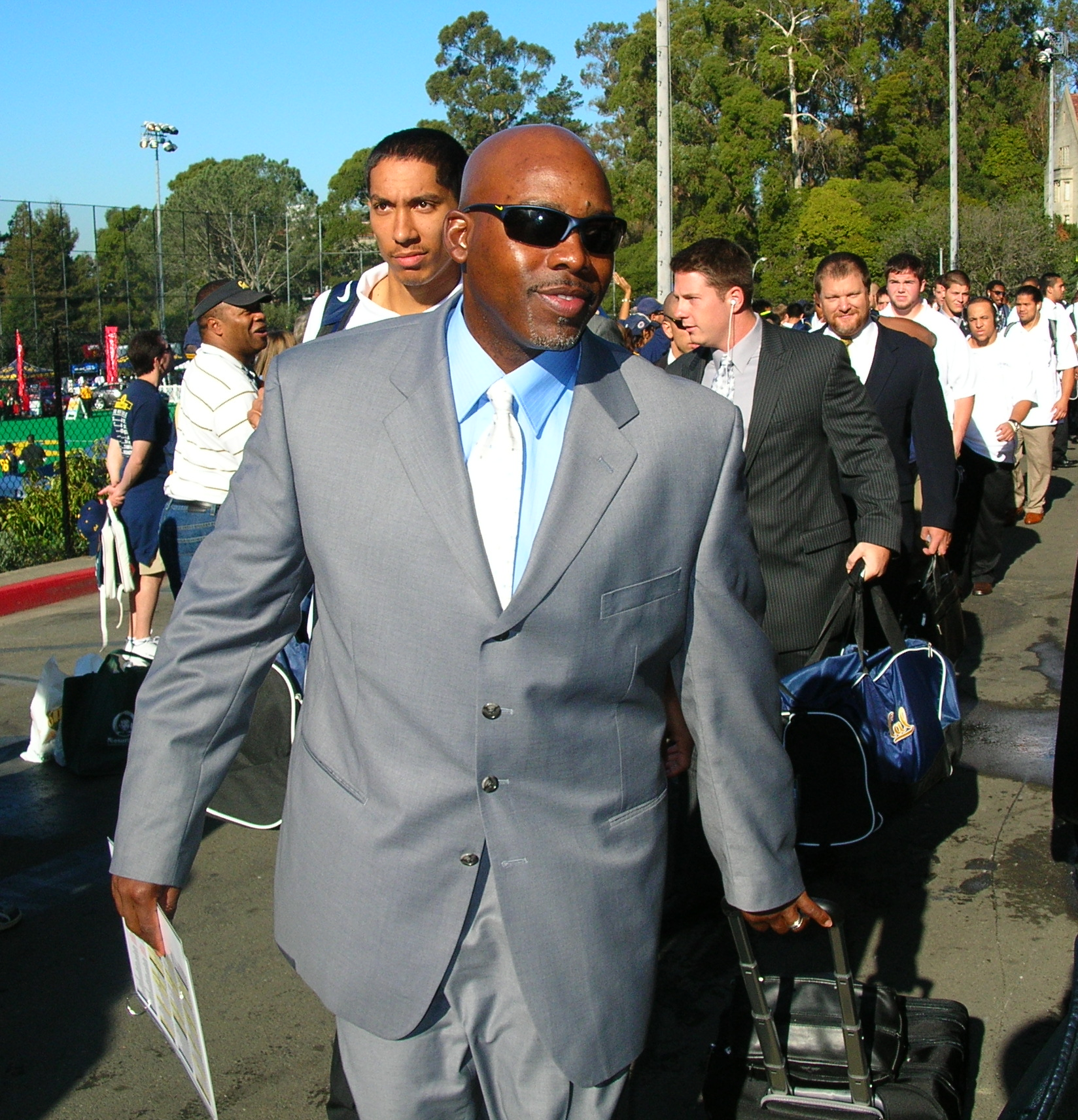 Cal running backs coach Ron Gould at the March to Victory prior to a Cal home game against the UCLA Bruins. The Golden Bears won 41-20. Under Gould, the sole assistant coach to stay from previous head coach Tom Holmoe, the Bears have produced a 1,000 yard rusher for seven straight years from 2002-2008.